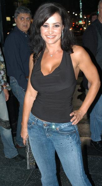 Lisa Ann. Taken at the Adam and Eve Tightfit Party on August 31, 2006.